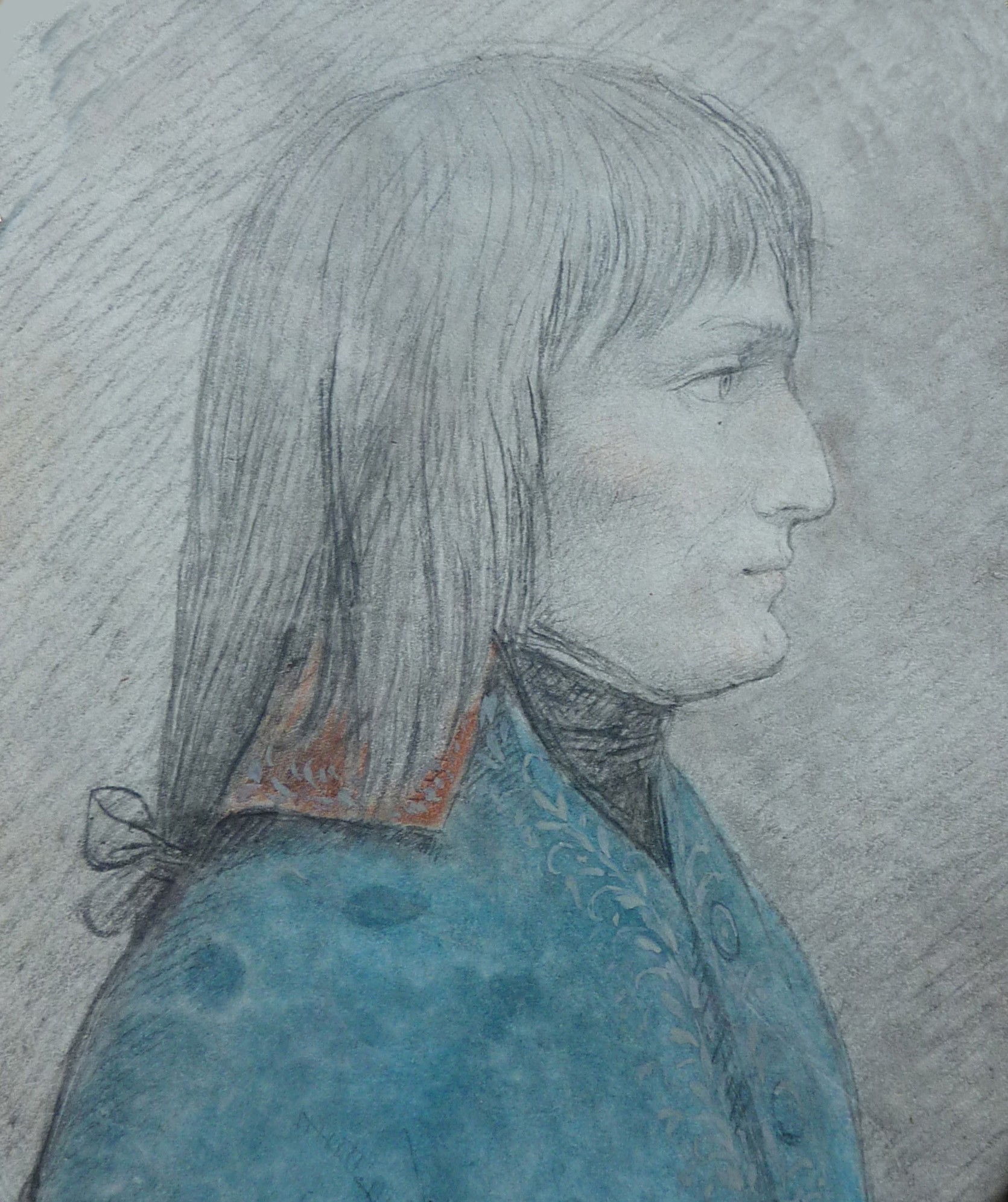 Napoleon portrait by Giuseppe Longhi